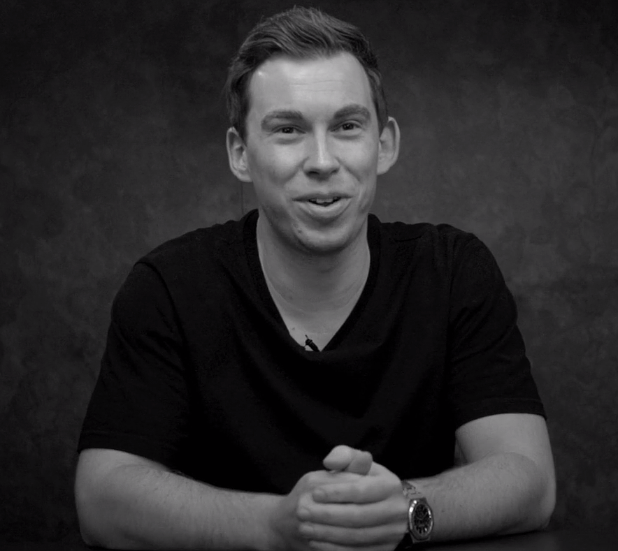 Hardwell talking about his second documentary movie "I Am Hardwell - Living the Dream"